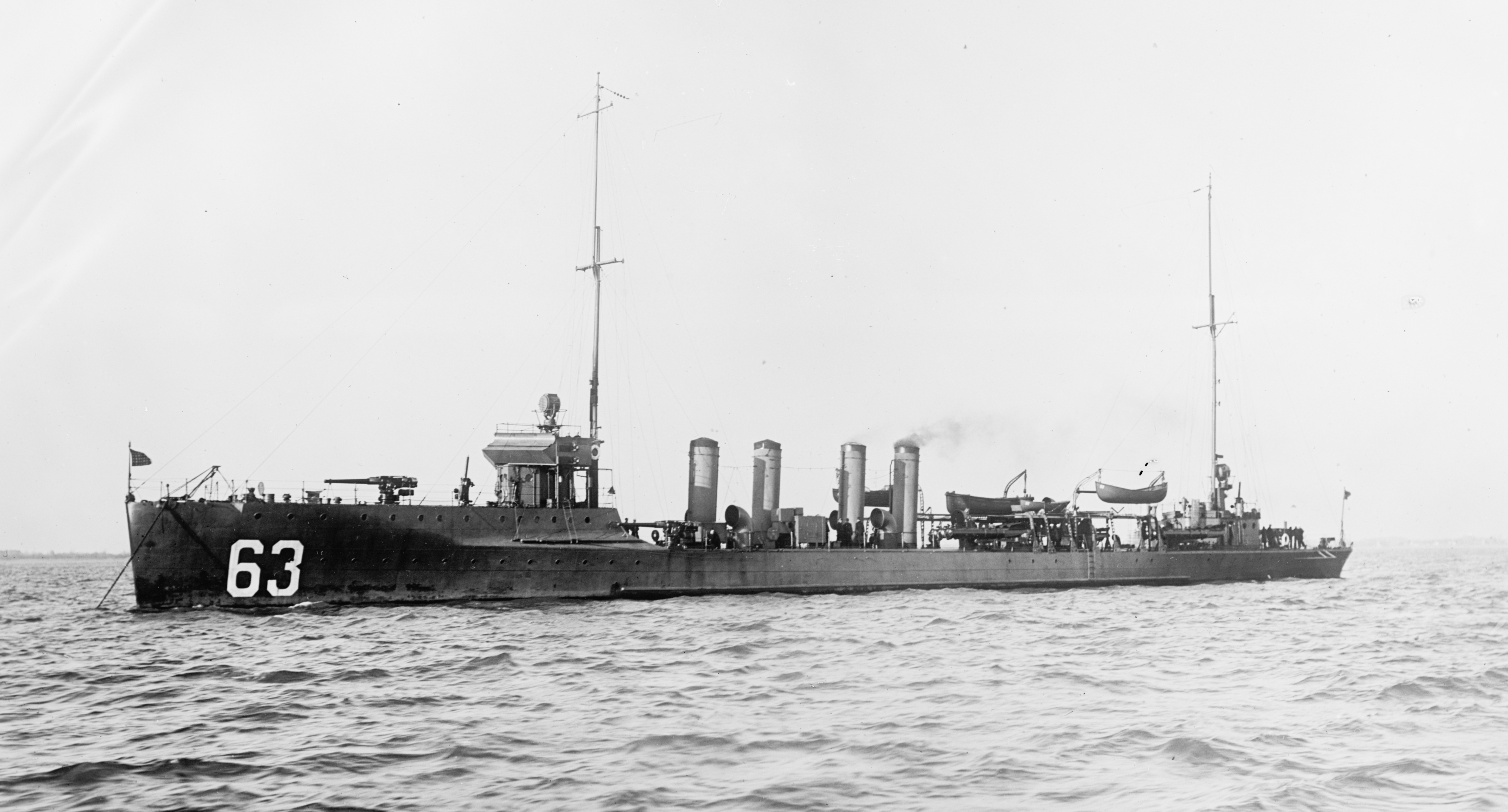 U.S.S. "Sampson," Hampton Roads, Virginia, Dec. 13, 1916